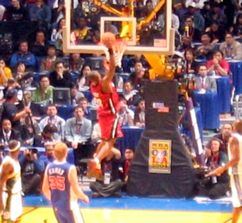 Dwyane Wade of the Rookies Team going up for a slam dunk during the 2004 got milk? Rookie Challenge game at the Staples Center. The photograph was taken with a Canon PowerShot A70 camera and edited (color balance, brightness, contrast, crop) using ArcSoft PhotoStudio 5.5